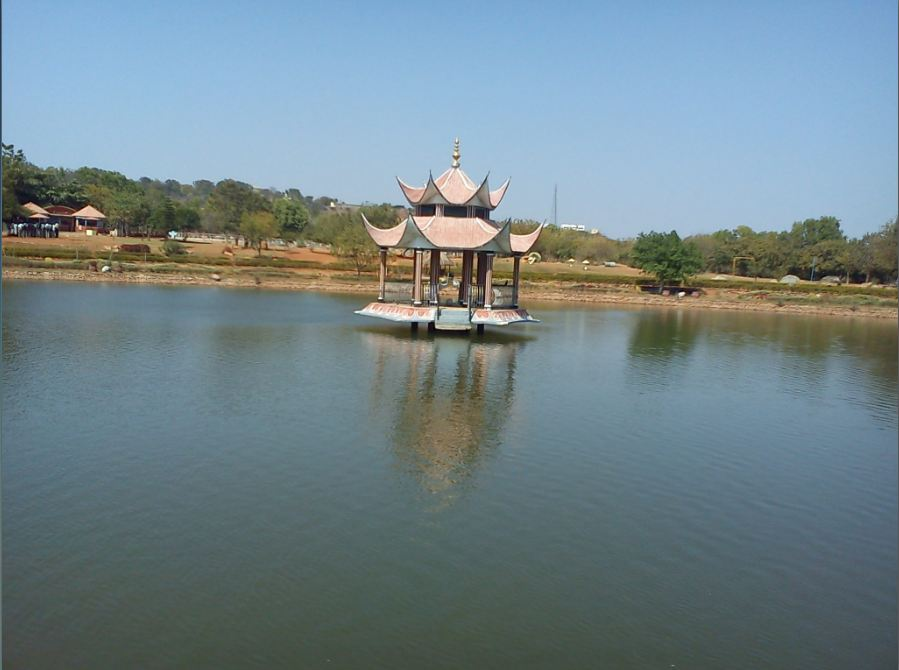 in rock hill garden